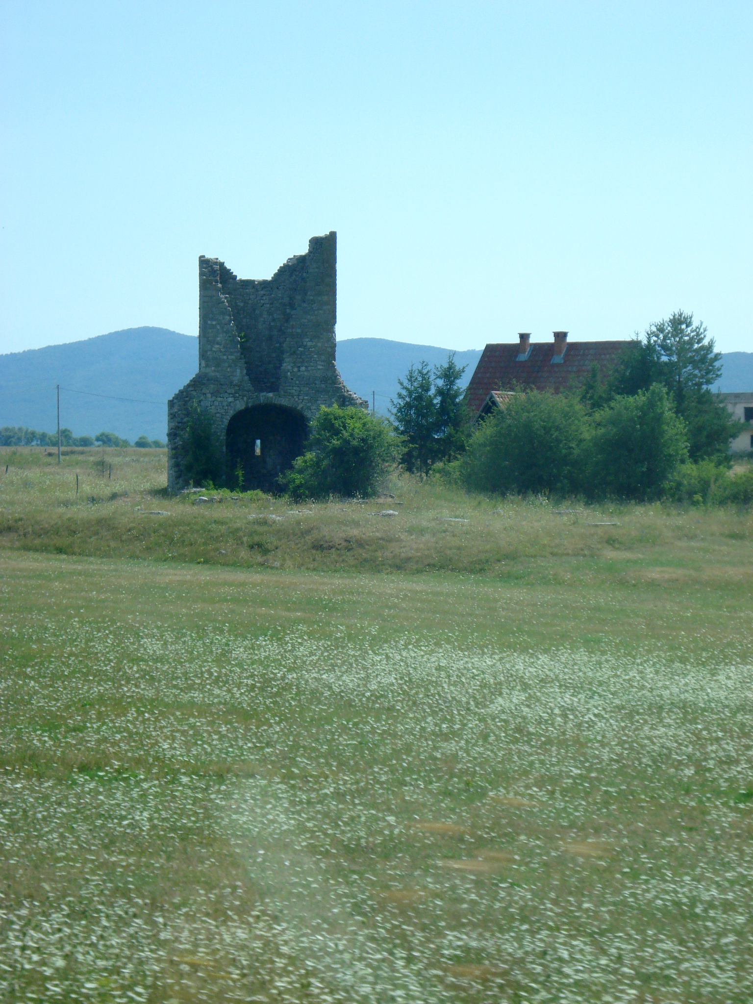 Old church in Bosanski Petrovac, BiH.